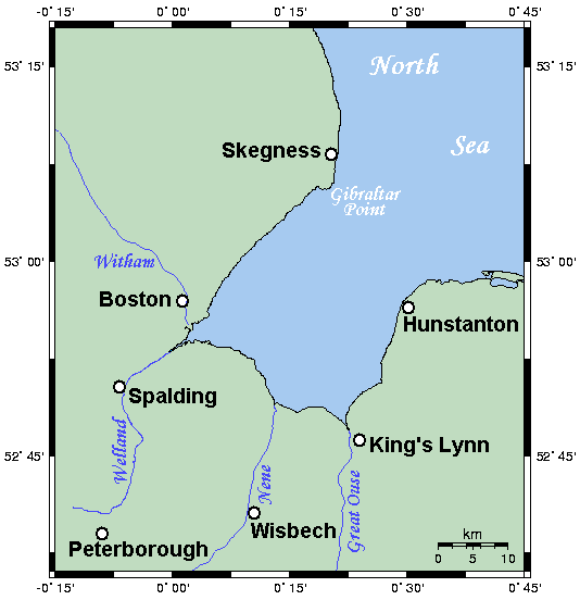 Map of The Wash, England.